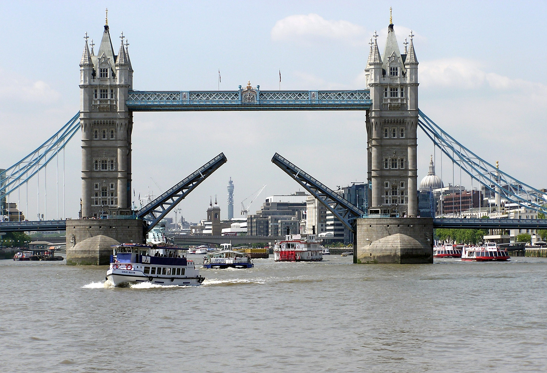 Tower Bridge 6 In front: Chay Blyth, river cruise ship